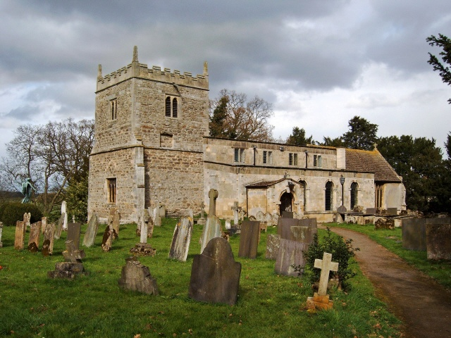 Church of St. Oswald, East Stoke. This 13th century church is quite remote from the village, and stands on raised ground above the River Trent, next to Stoke Hall. Julian Pauncefote, Baron Pauncefote, the first British Ambassador to the United States is buried in the churchyard.